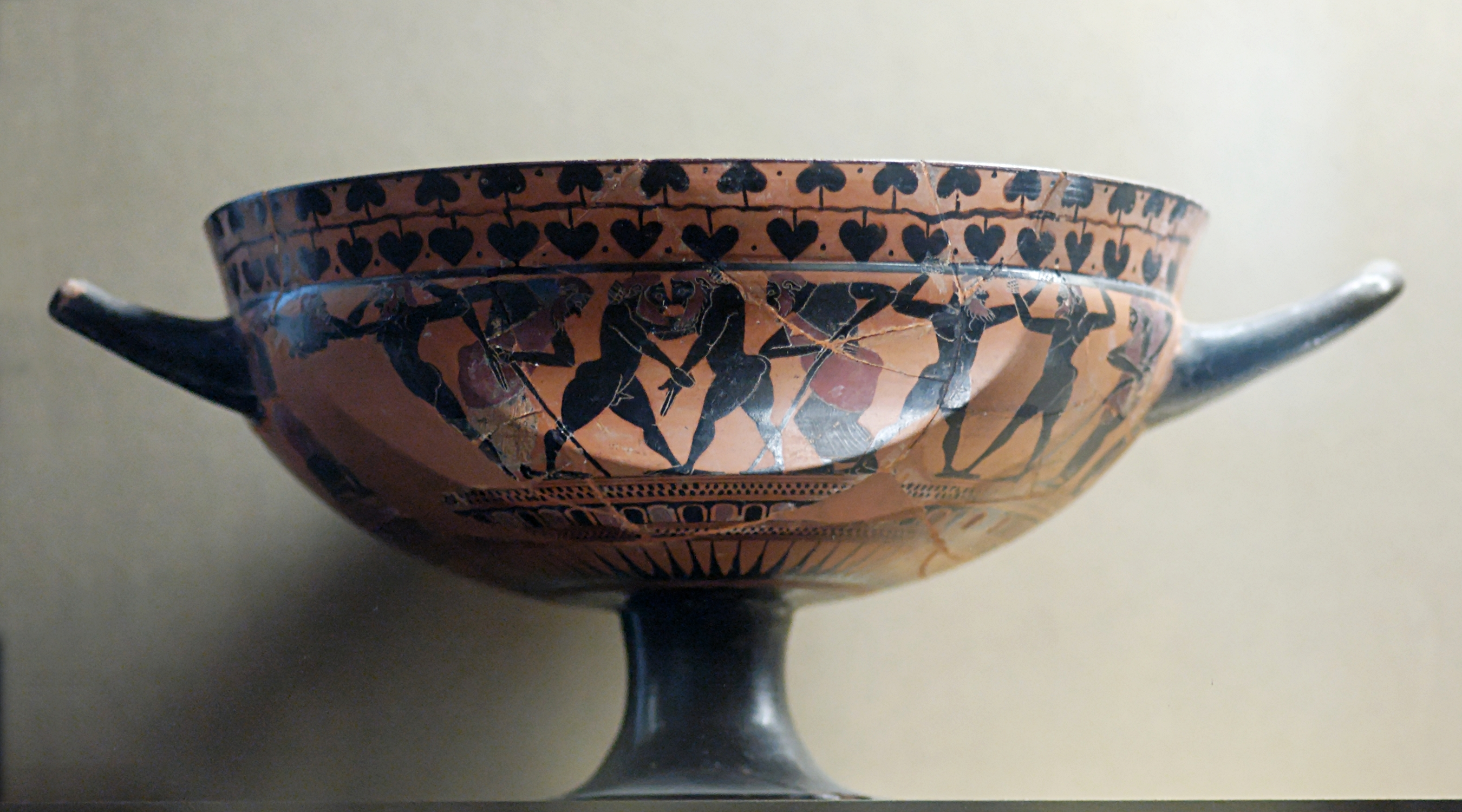 Boxers. Side A from an Attic black-figure Siana cup